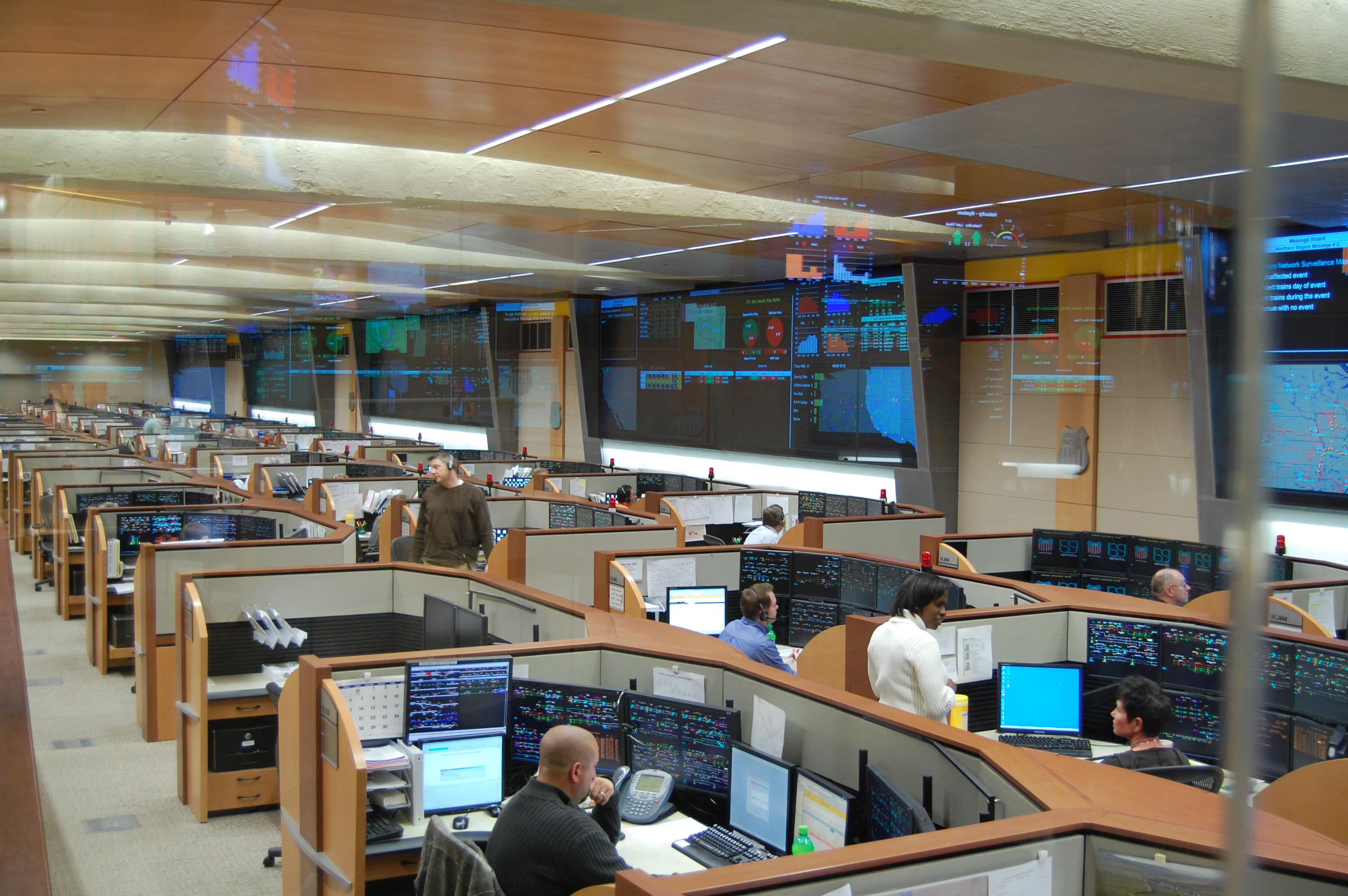 This is where the action happens at Union Pacific's Harriman Dispatching Center. It is staffed 24 hours per day, 365 days per year to make sure the company's entire rail network is operating smoothly. The room is surrounded by state-of-the-art sound-absorbing panels and acoustic cloud wood ceilings, the same technologies found in modern concert halls. Visit for more. (The America's Power Team took this photo during the 2009 Factuality Tour.)